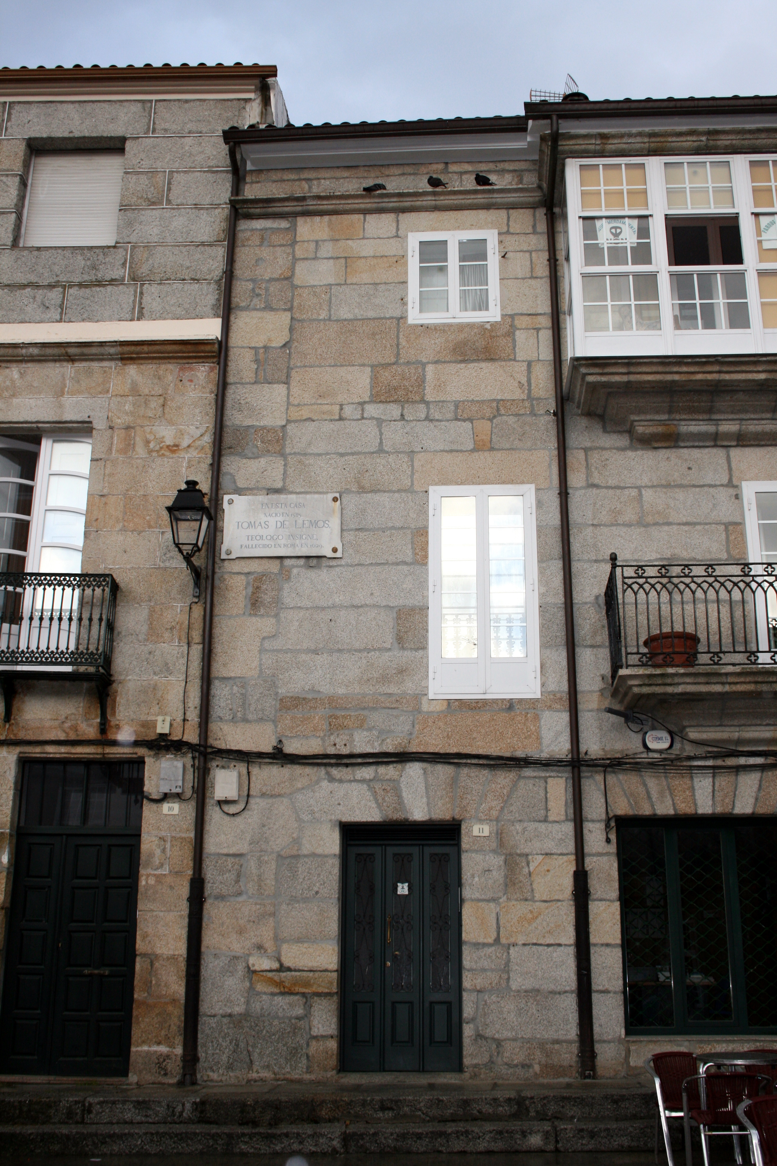 House where was born the theologian Tomás de Lemos, Ribadavia, Ourense, Galicia.